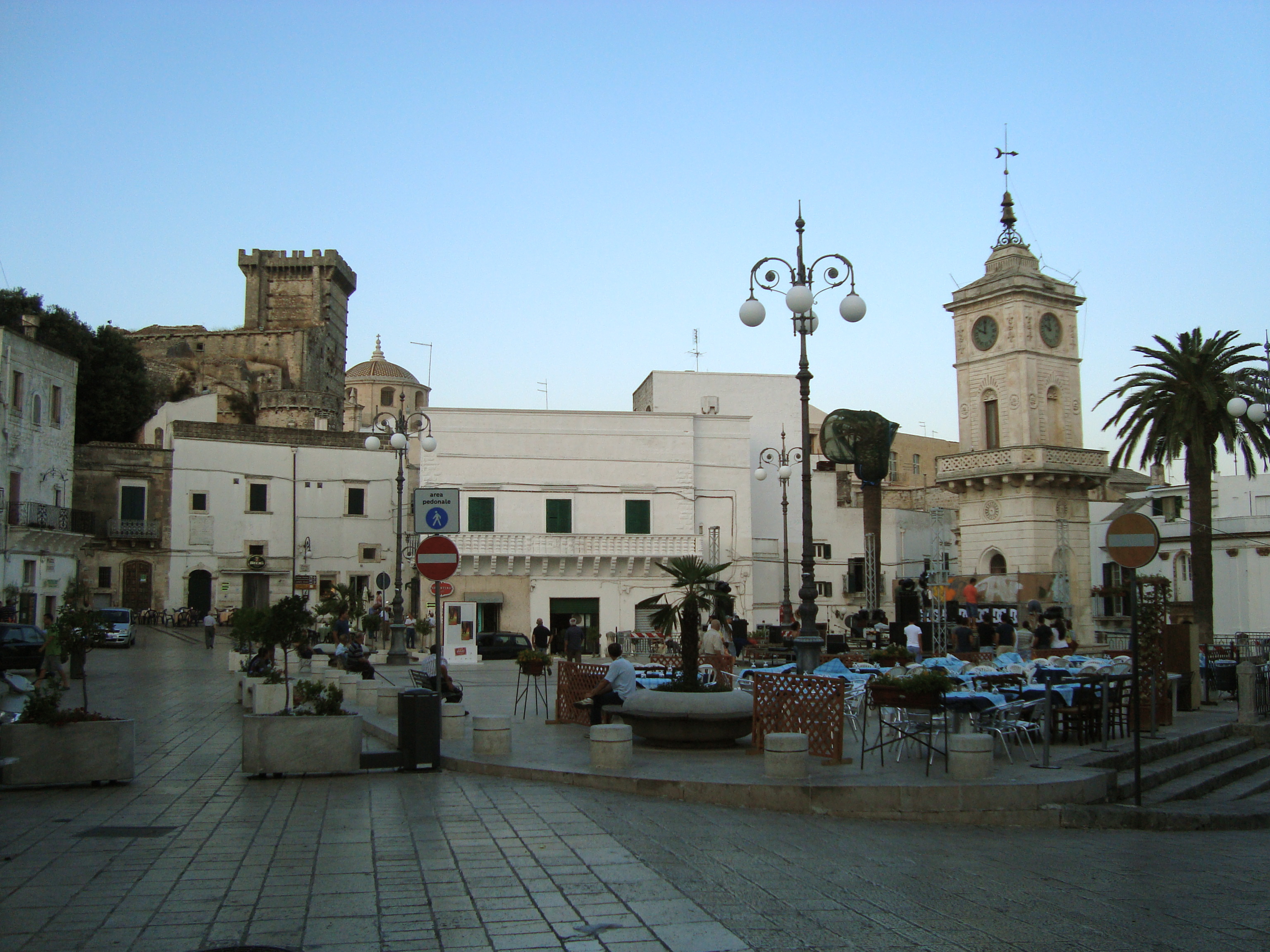 Piazza del popolo in Ceglie Messapica